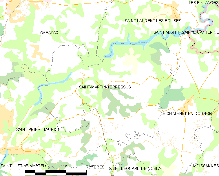 Map of French municipality Saint-Martin-Terressus